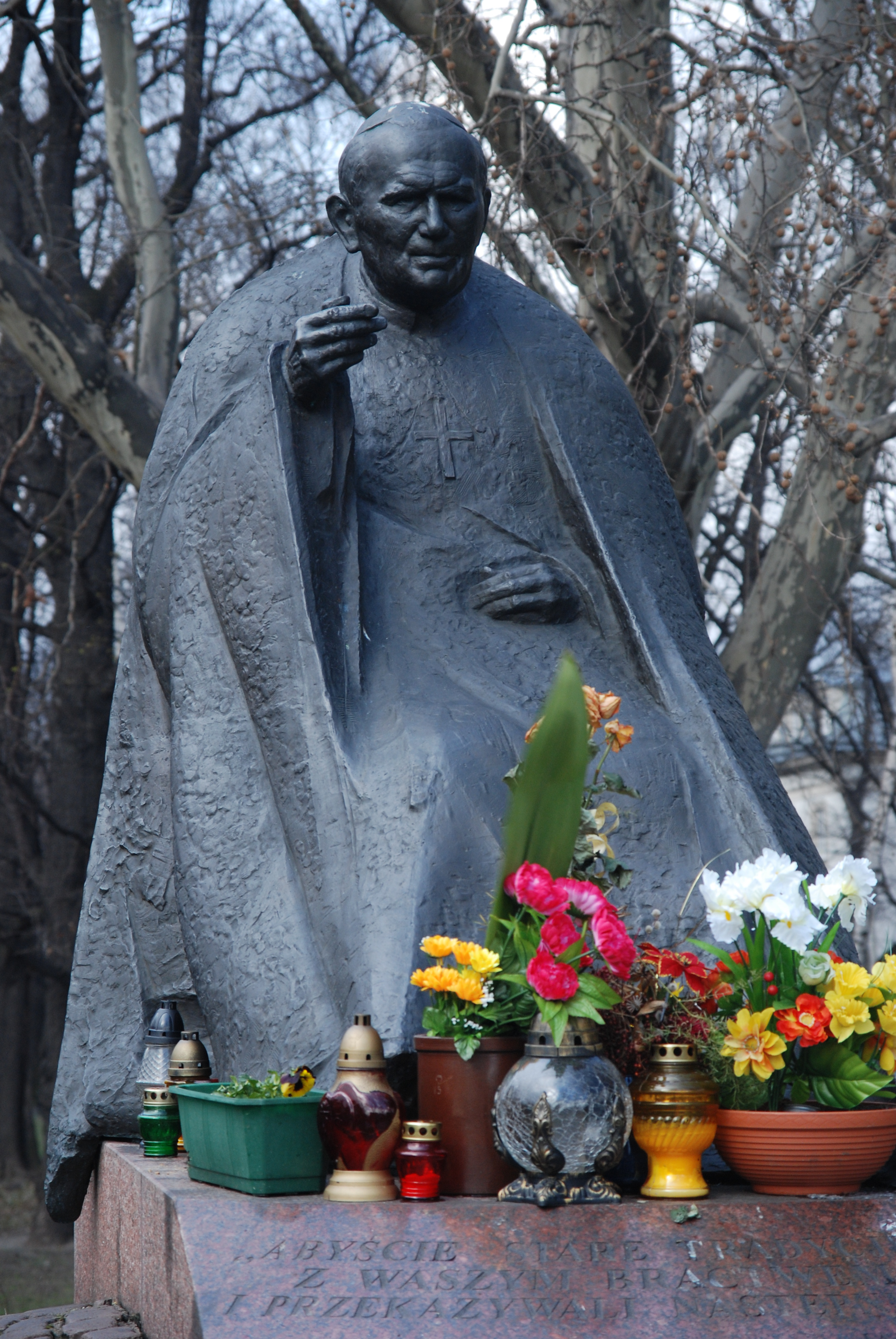 John Paul II monument, Kraków by Czesław Dźwigaj, 2000